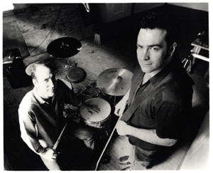 a picture of the band cash audio